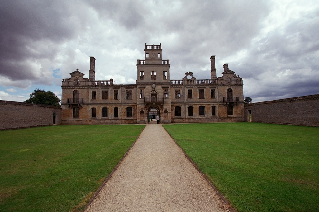 Kirby Hall, Northamptonshire